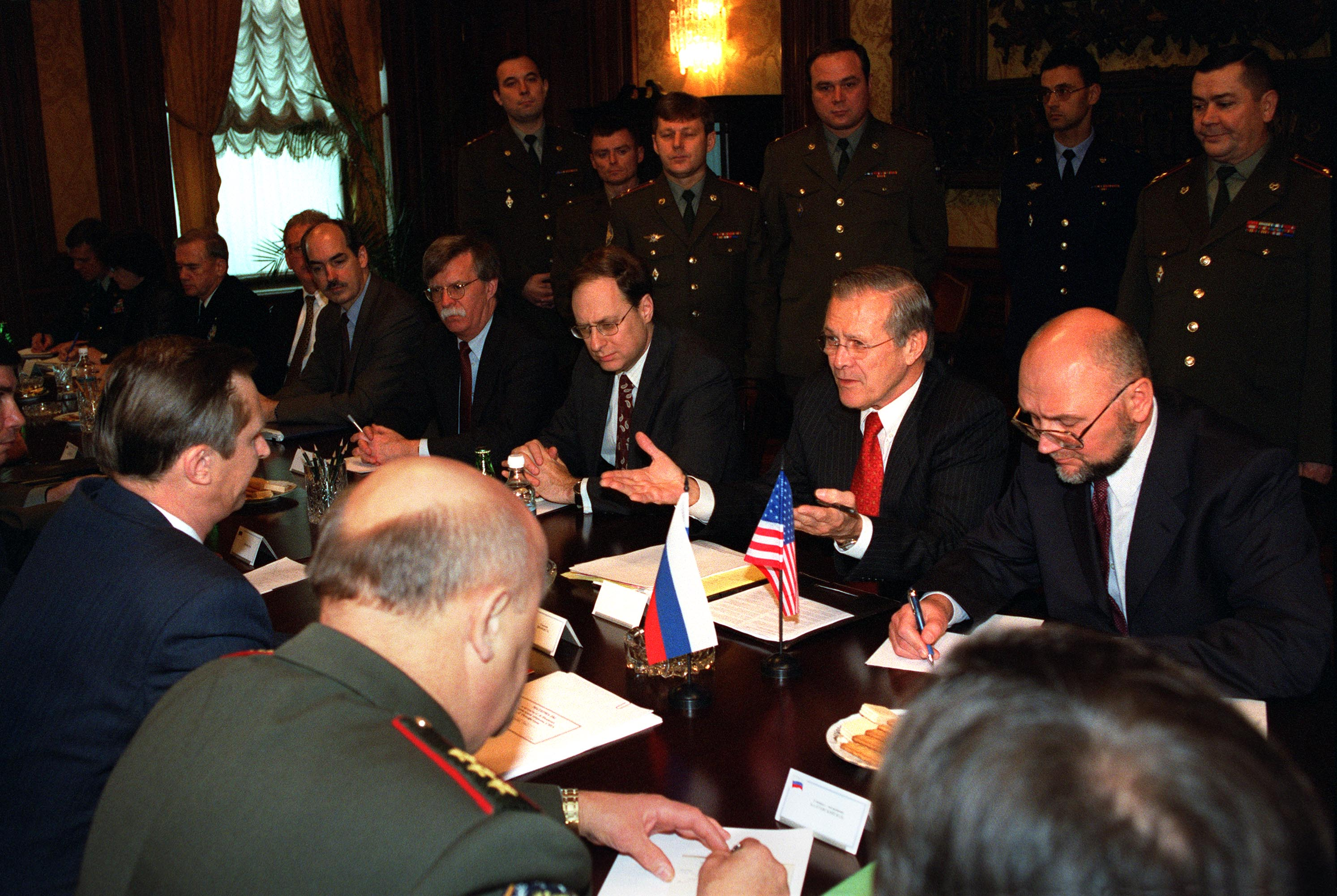 Secretary of Defense Donald H. Rumsfeld (2nd from right) meets with his Russian counterpart Sergey Ivanov (opposite) at the Ministry of Defense in Moscow on Nov. 3, 2001. The focus of the Rumsfeld-Ivanov talks is on ballistic missile defense and the reduction of nuclear arsenals. Rumsfeld's visit is laying the groundwork for next week's summit meeting in the United States between Russian President Vladimir Putin and George W. Bush.